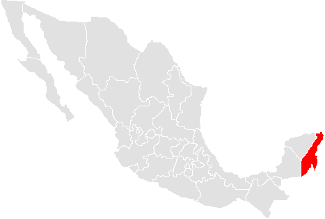 A map of the Mexican state of quintana roo made by me